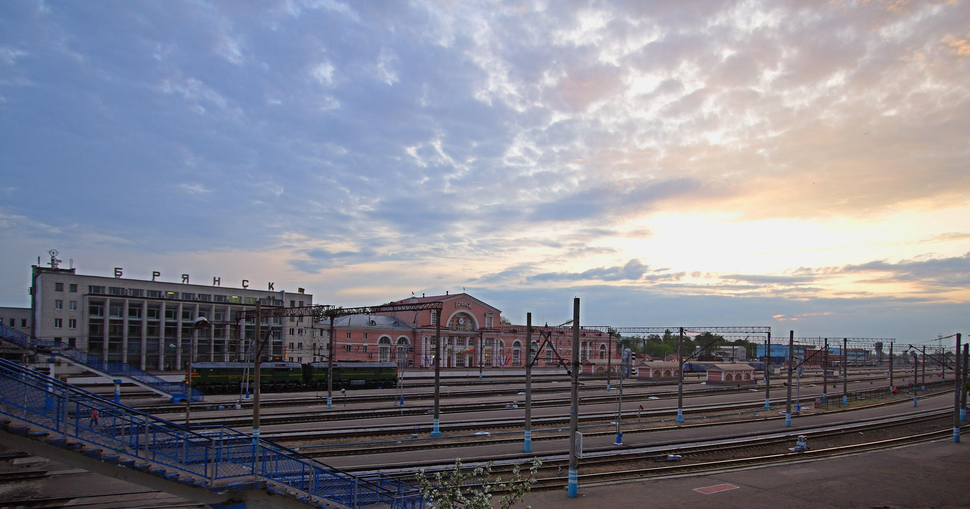 Train station Bryansk-I (Bryansk-Orlovskiy) in Bryansk.